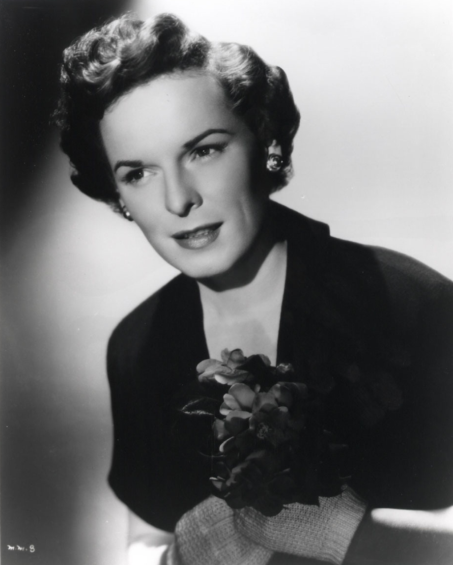 Promotional photograph of actor Mercedes McCambridge (1940s)